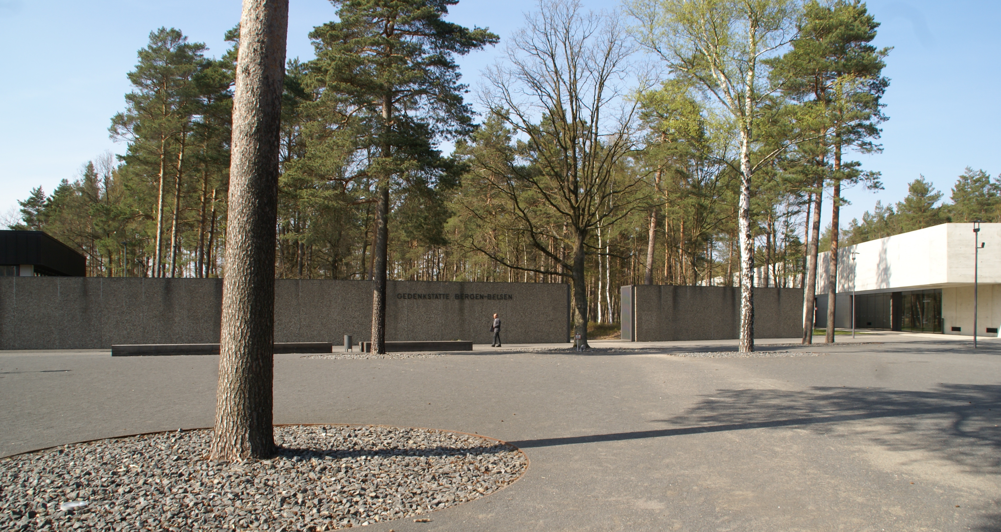 Winsen (Aller) (Germany): The entrance of the memorial at the Bergen-Belsen concentration camp